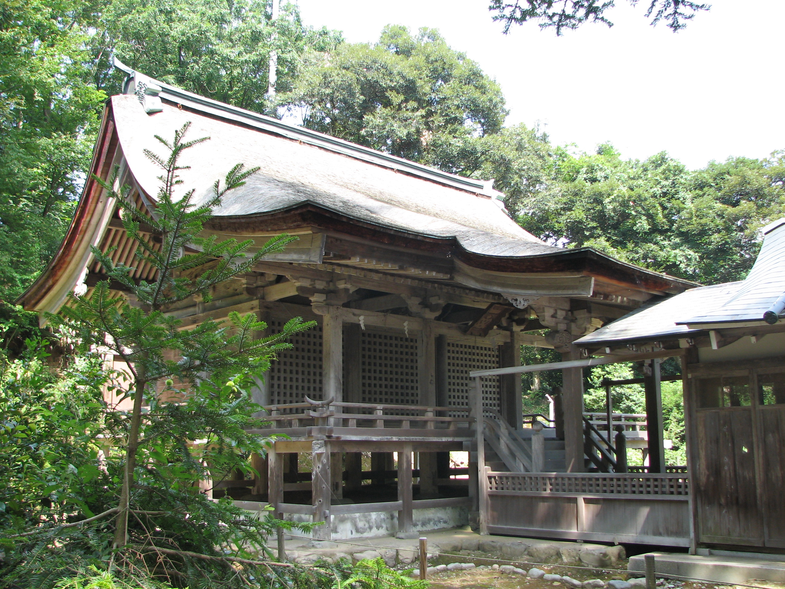 the honden of Keta Shrine, Takaoka, Toyama, Japan 気多神社本殿（富山県高岡市）